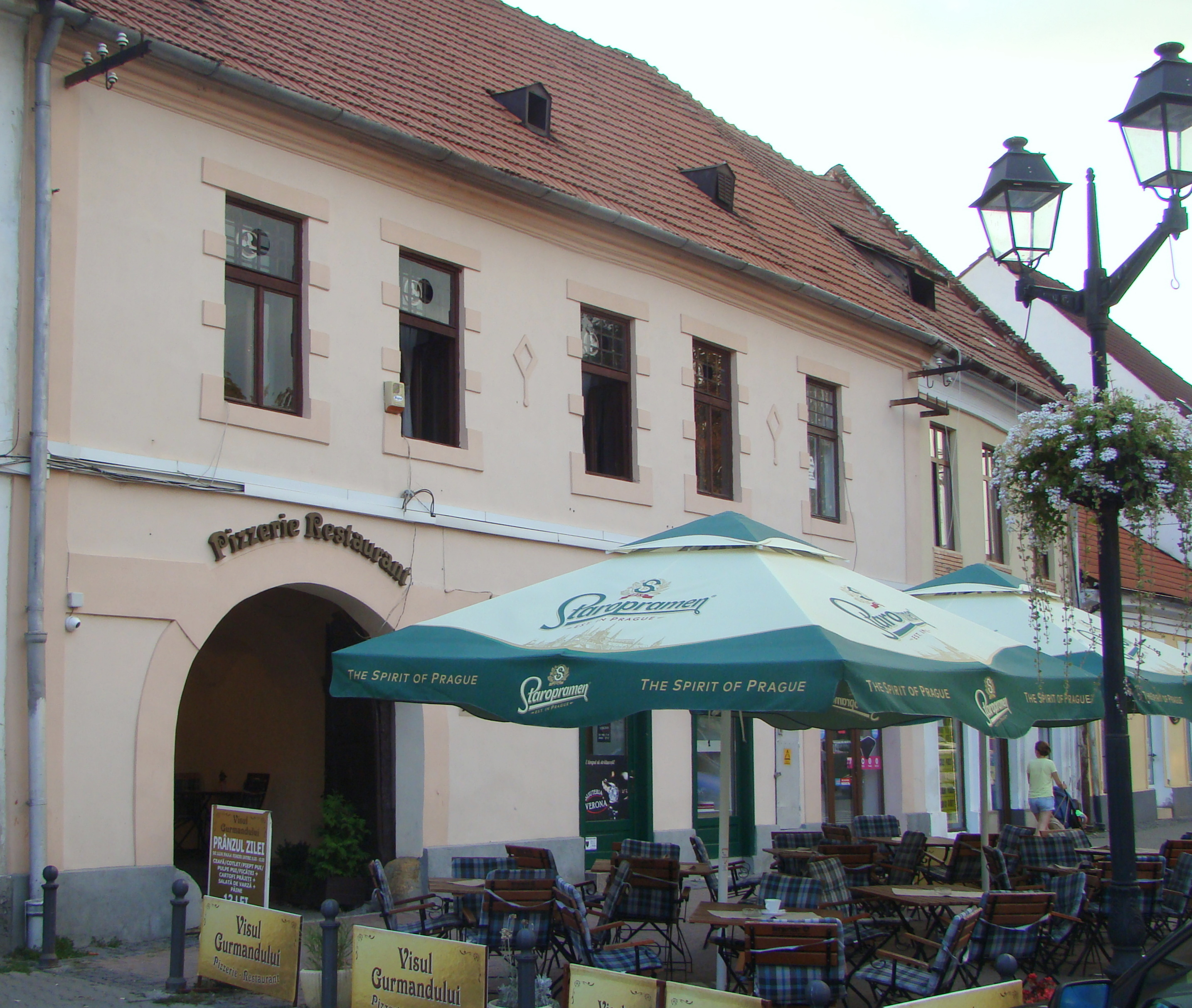 House, historic monument, in Bistrița, Liviu Rebreanu street 45